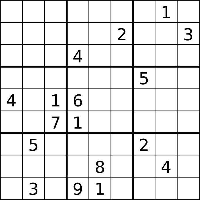 "Ocean's Sudoku17 Puzzle#39451". This image is the same as "Oceans Sudoku17 Puzzle-39451.svg" by Ocean, but the border has been trimmed to match the style of other Sudoku images.